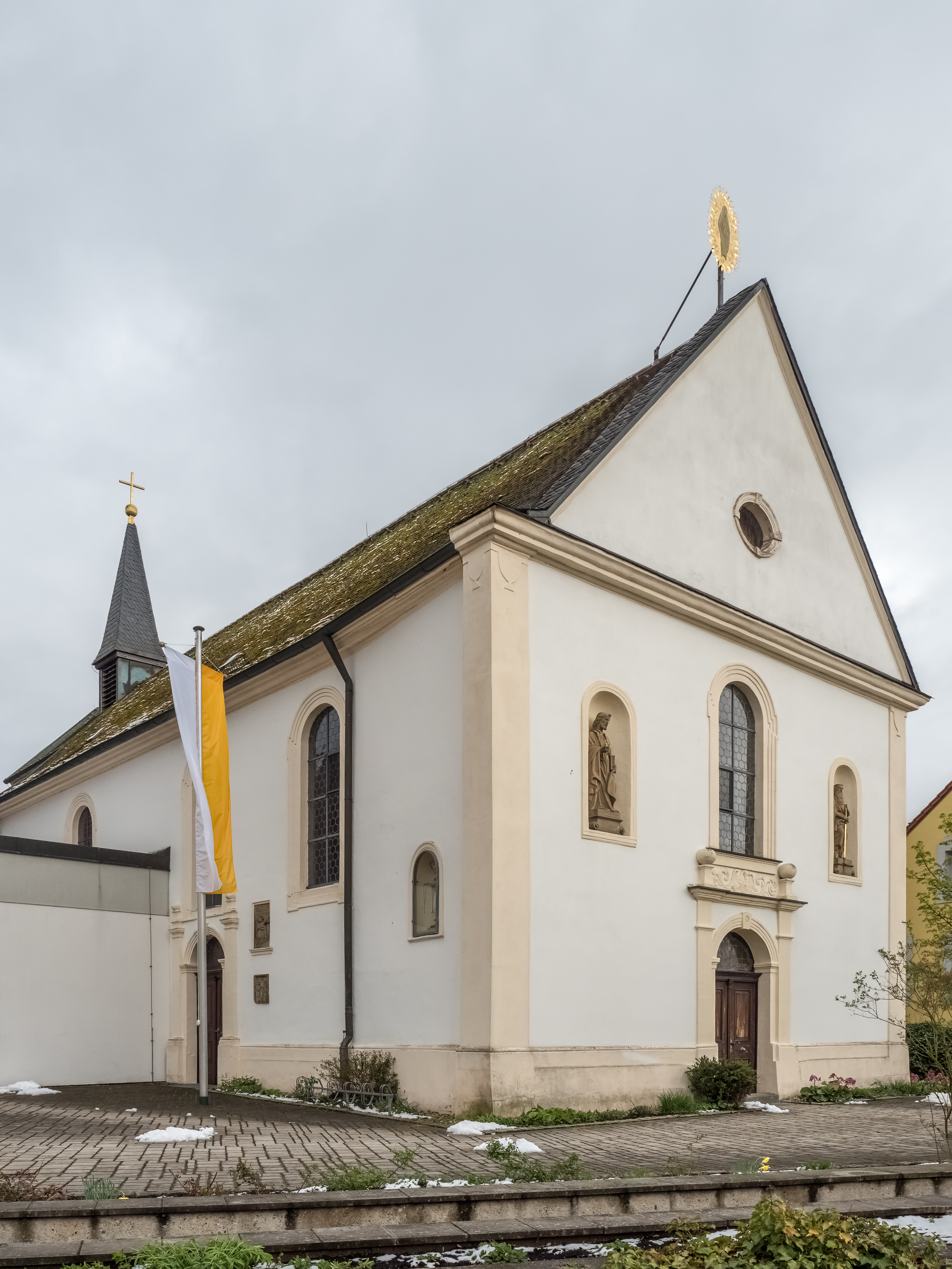 Catholic parish church of Saint Bartholomew in Oberhaid